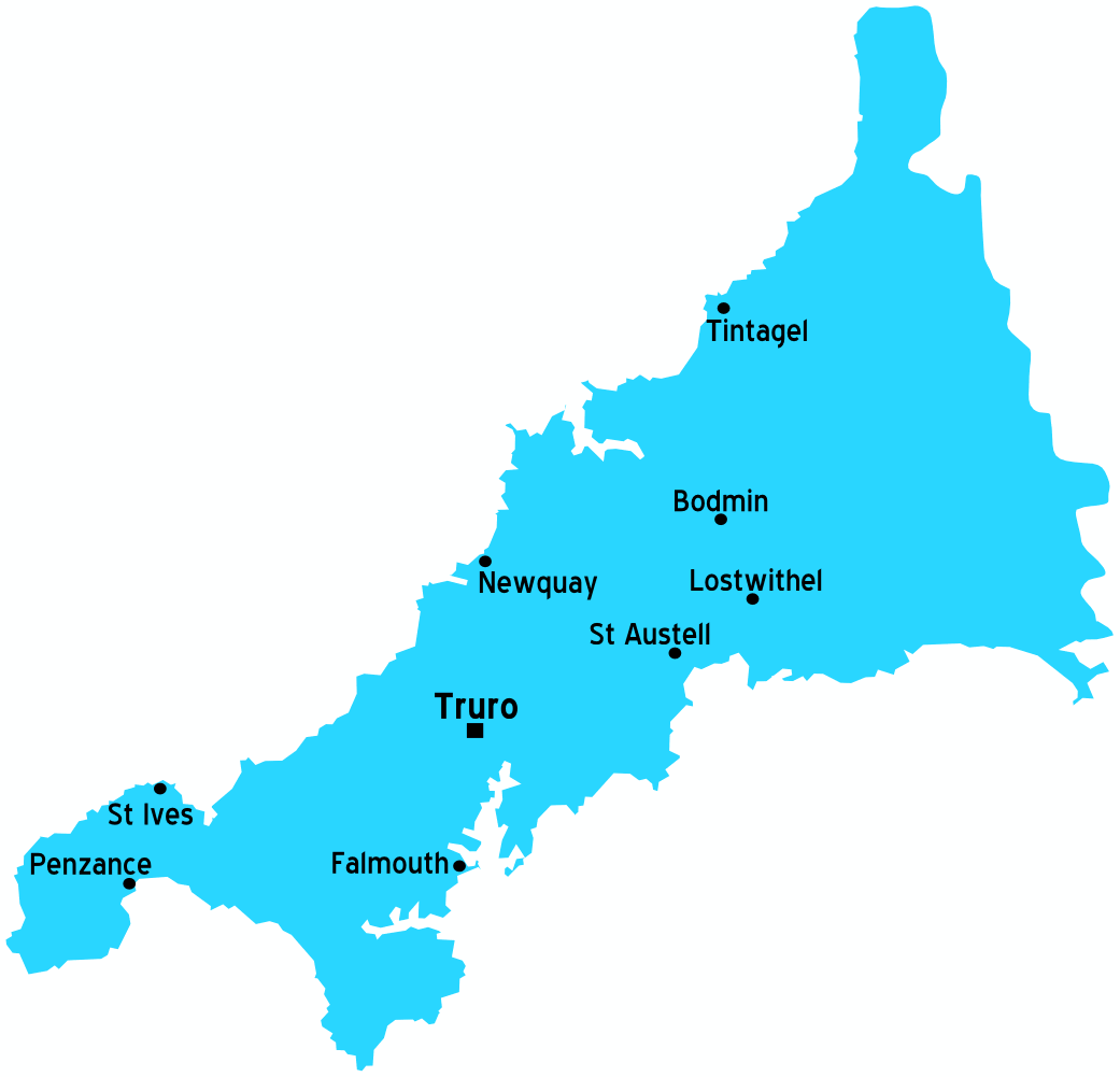 Map of Cornwall, England.